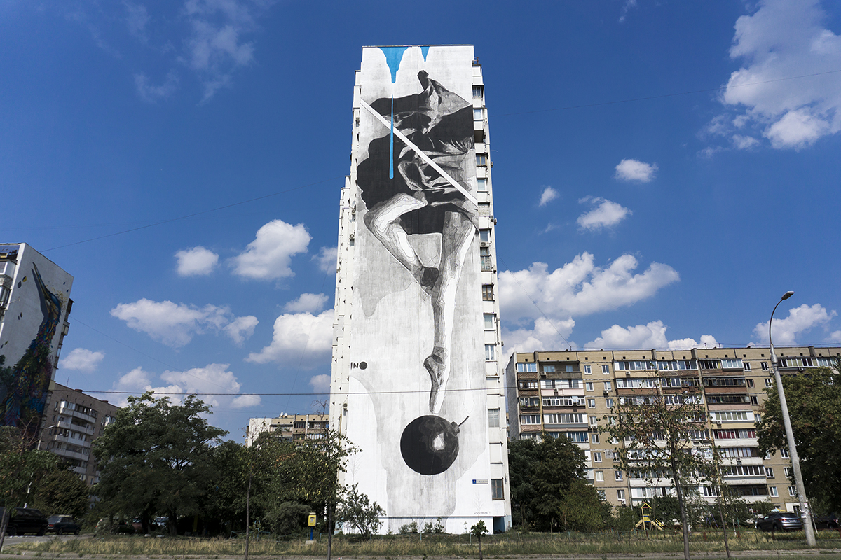 Mural artwork of the artist INO made in Kiev, Ukraine.